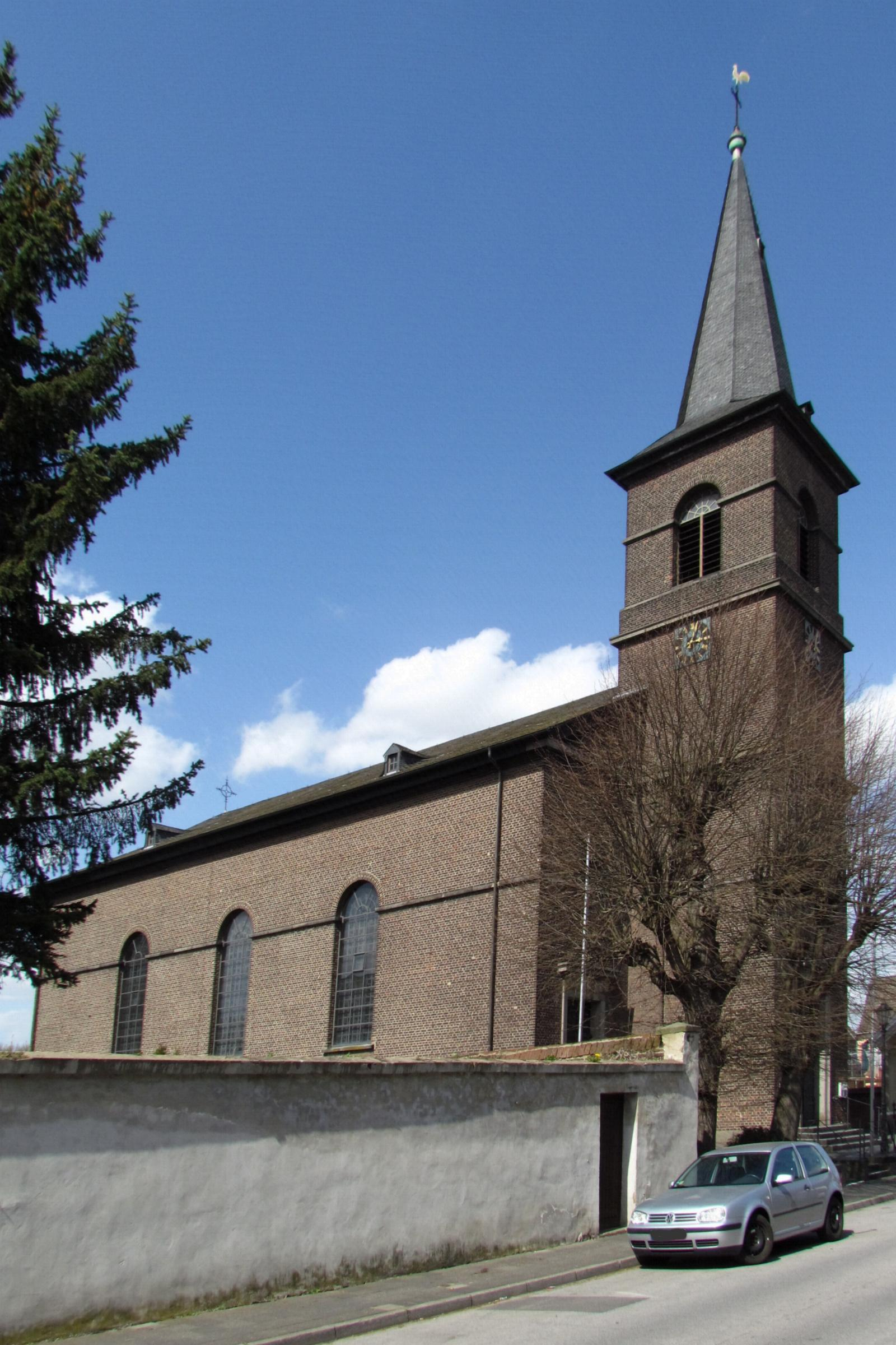 This is a photograph of an architectural monument.